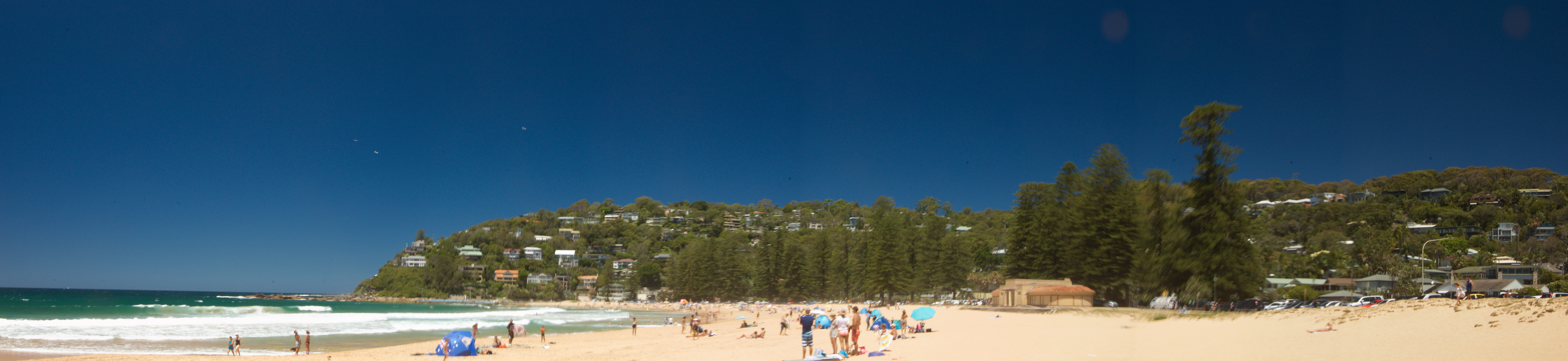 Palm Beach Panorama